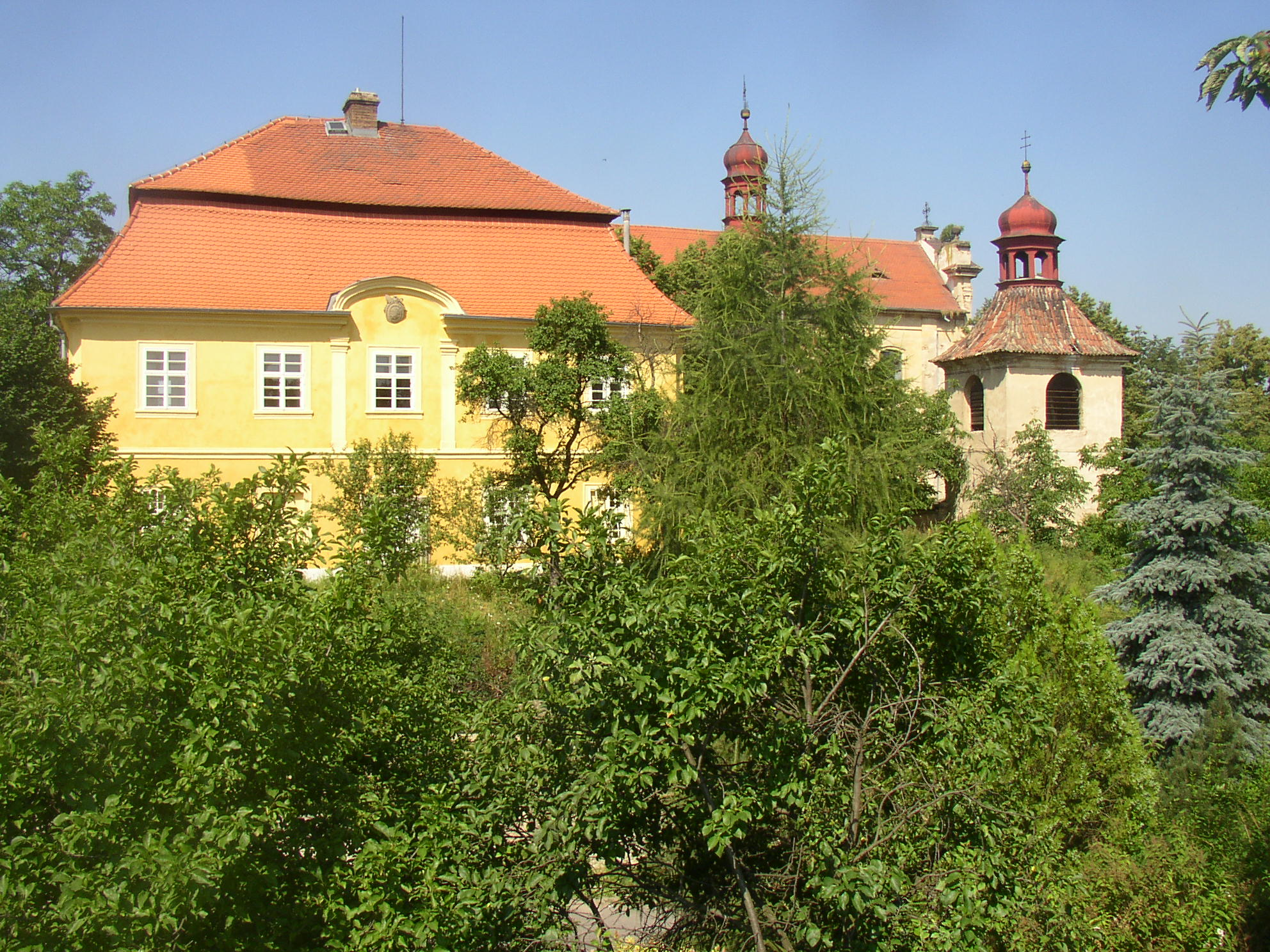 Dolánky nad Ohří, Litoměřice District. Rectory (1788-91), St Giles church (1674-76) and belfry as seen from the east, from Hrdly - Doksany road.